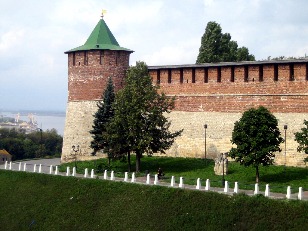 Koromyslova tower of Nizhny Novgorod Kremlin. Volga river at the background